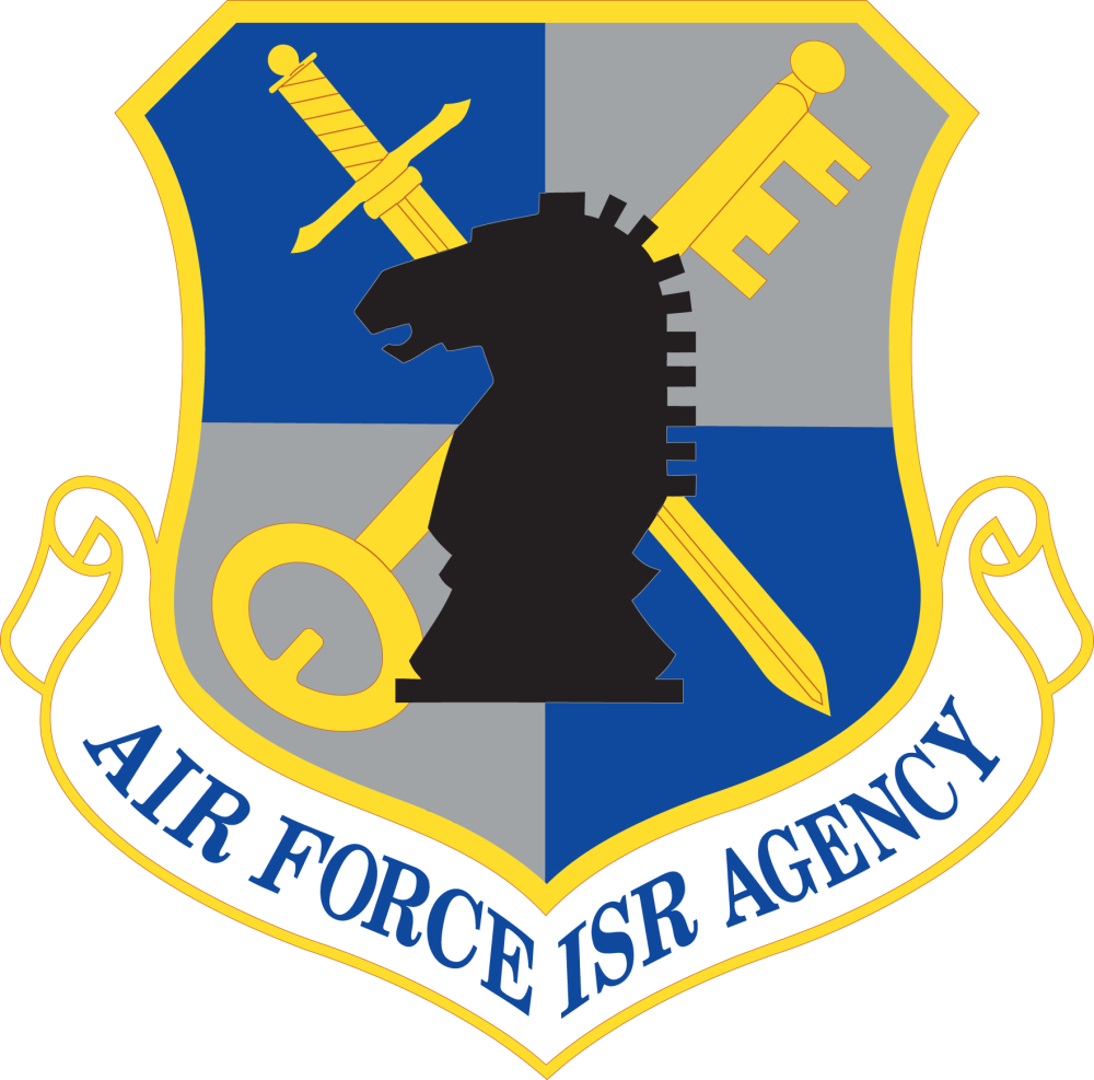 Emblem of the Air Force Intelligence, Surveillance and Reconnaissance Agency, a Field Operating Agency of the United States Air Force. Formerly known as the Air Intelligence Agency